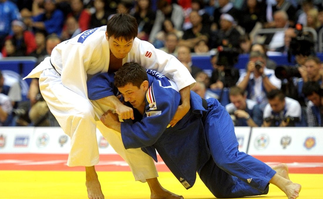 2014 World Judo Championships